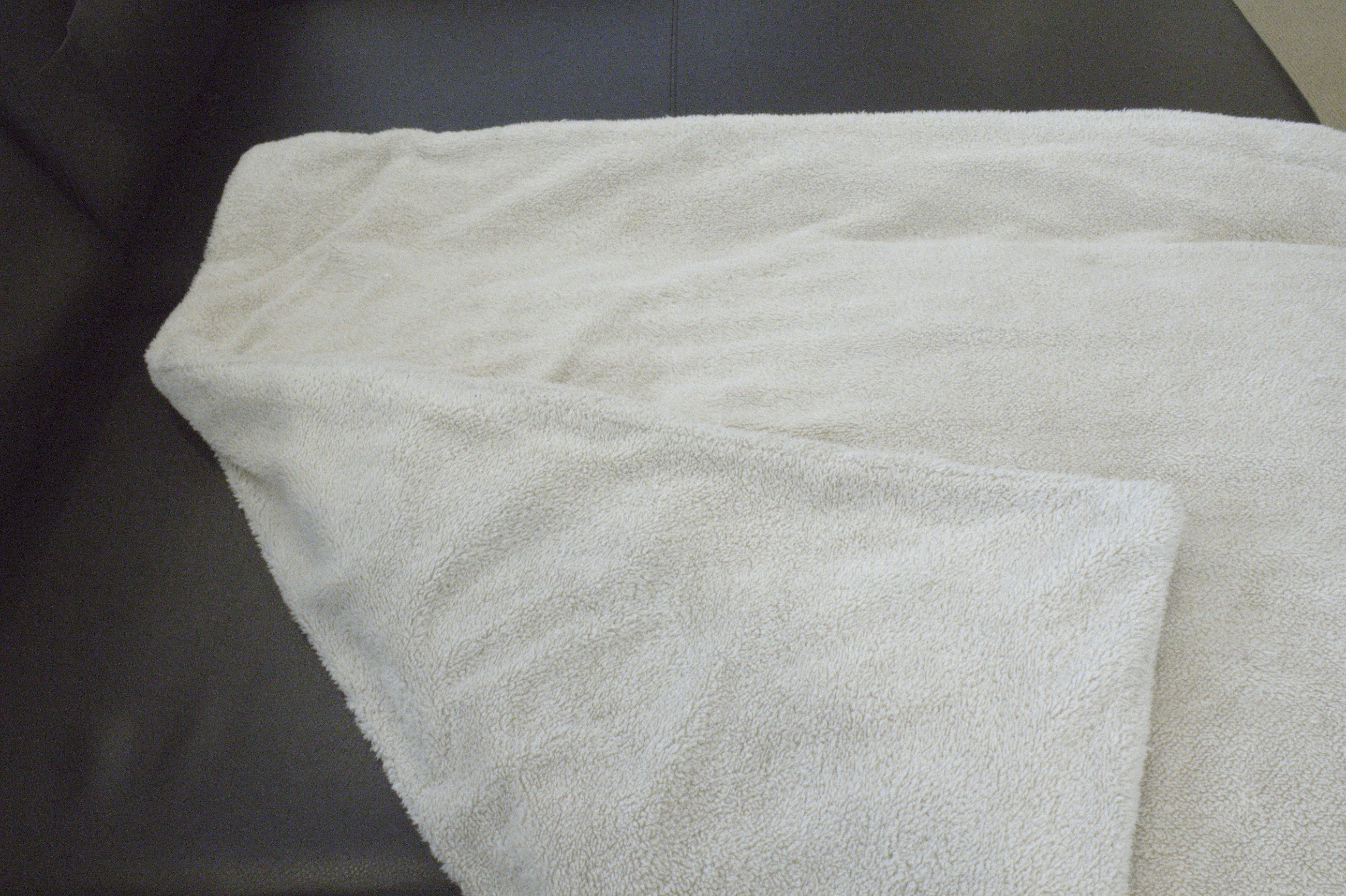 A tan fake fur blanket on a black coach